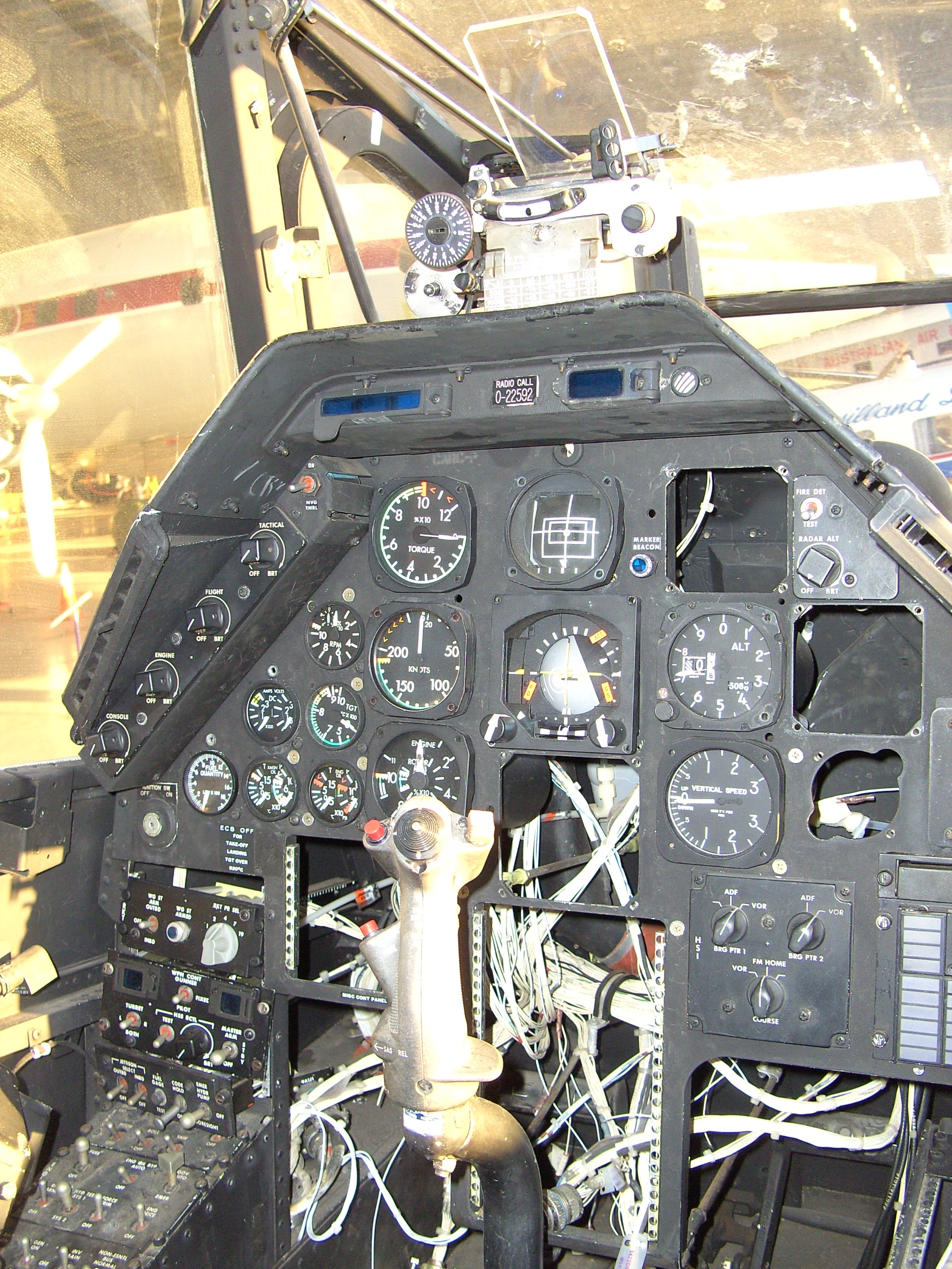 AH-1P rear cockpit (stripped), Historical Aircraft Restoration Society